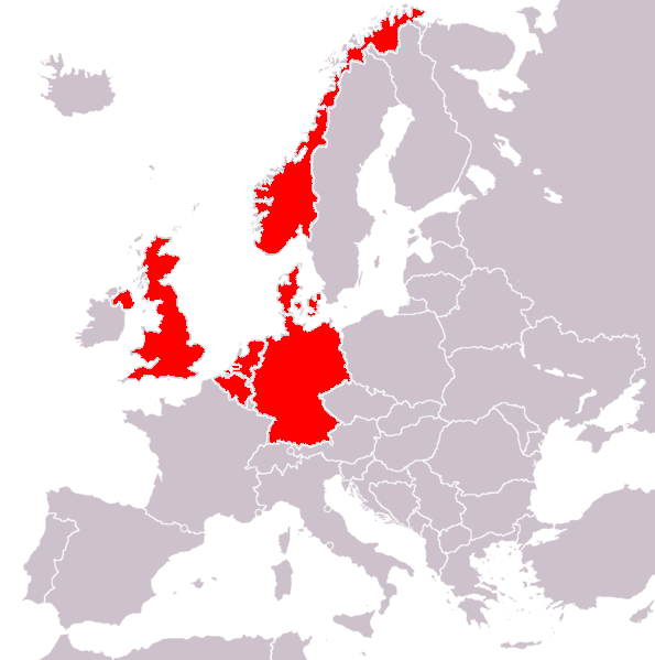 Version of BlankEurope.png with the countries affected by the 2007 North Sea flood highlighted in red.